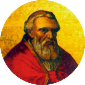 Portait of Pope Marinus II in the Basilica of Saint Paul Outside the Walls, Rome